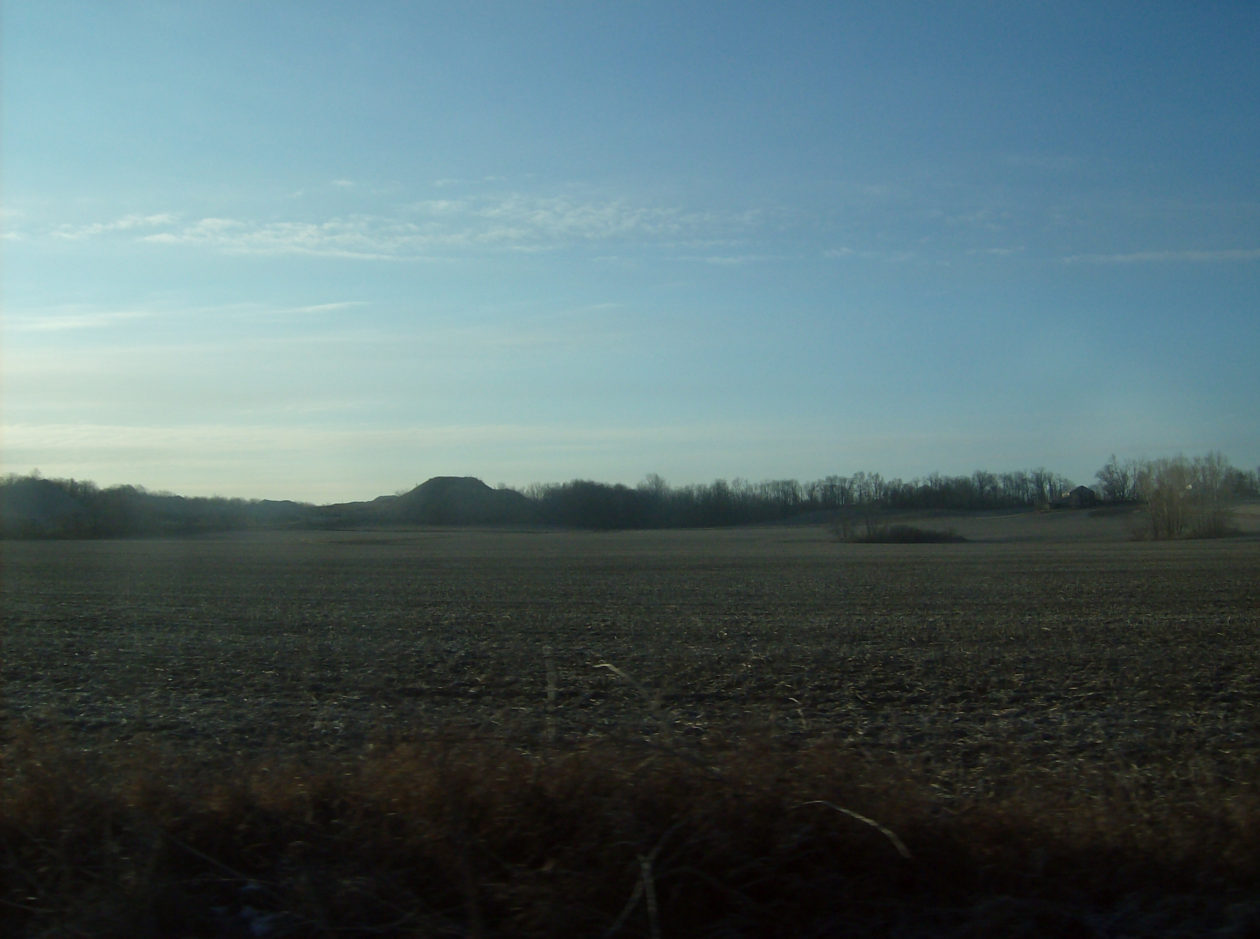 Farmland in western Pipe Creek Township, Miami County, Indiana, United States. Picture taken southward from CR500S.